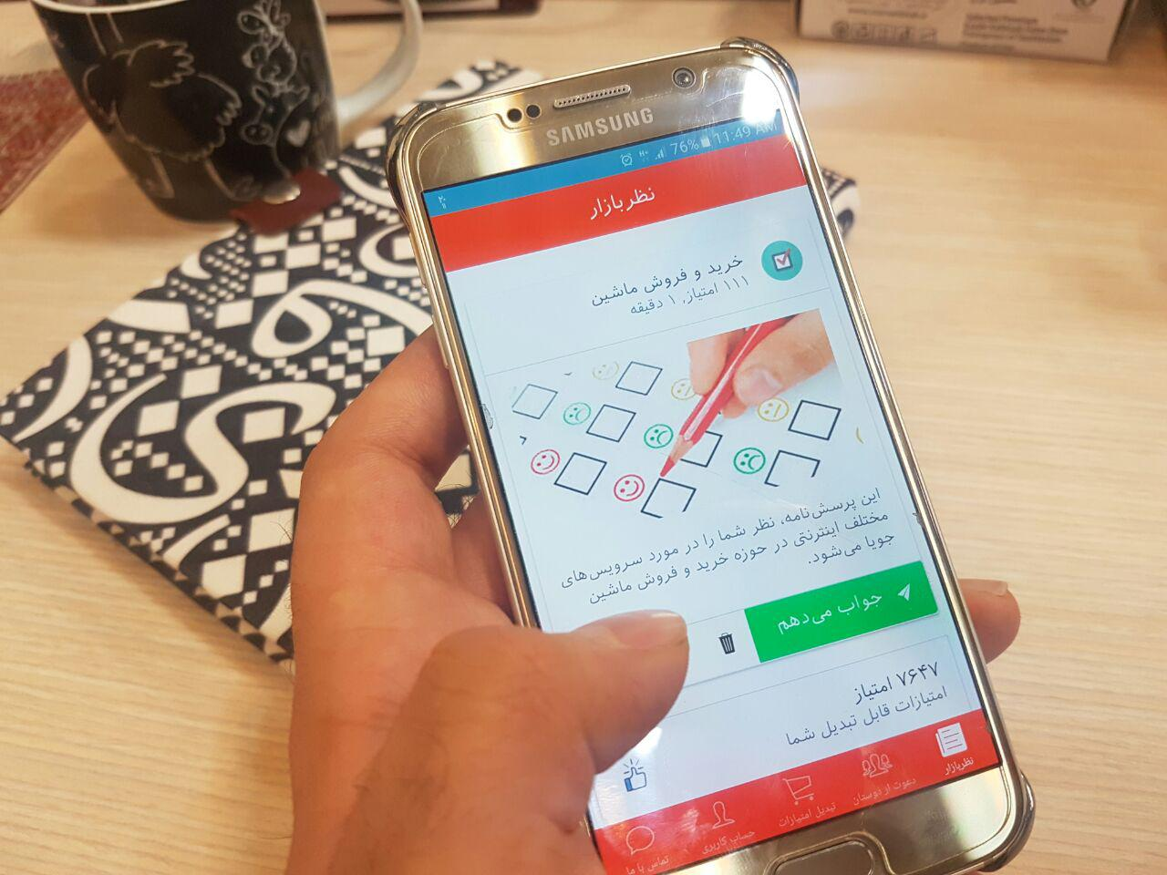 Persian Survey on a mobile phone